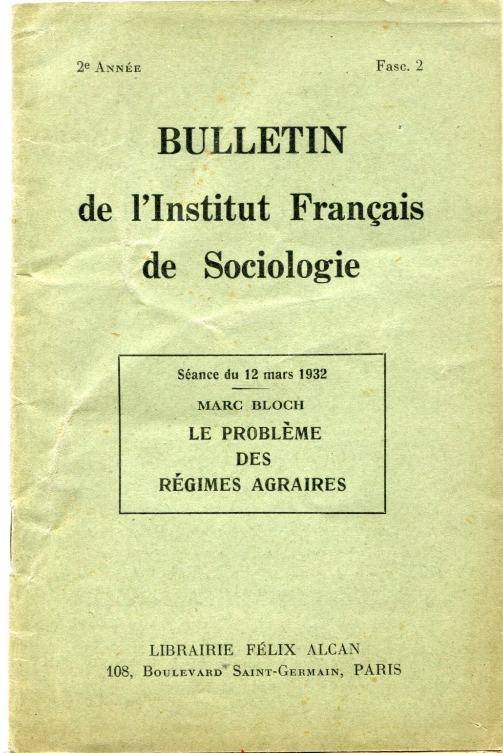 Institut Français de Sociologie Journal (1932)